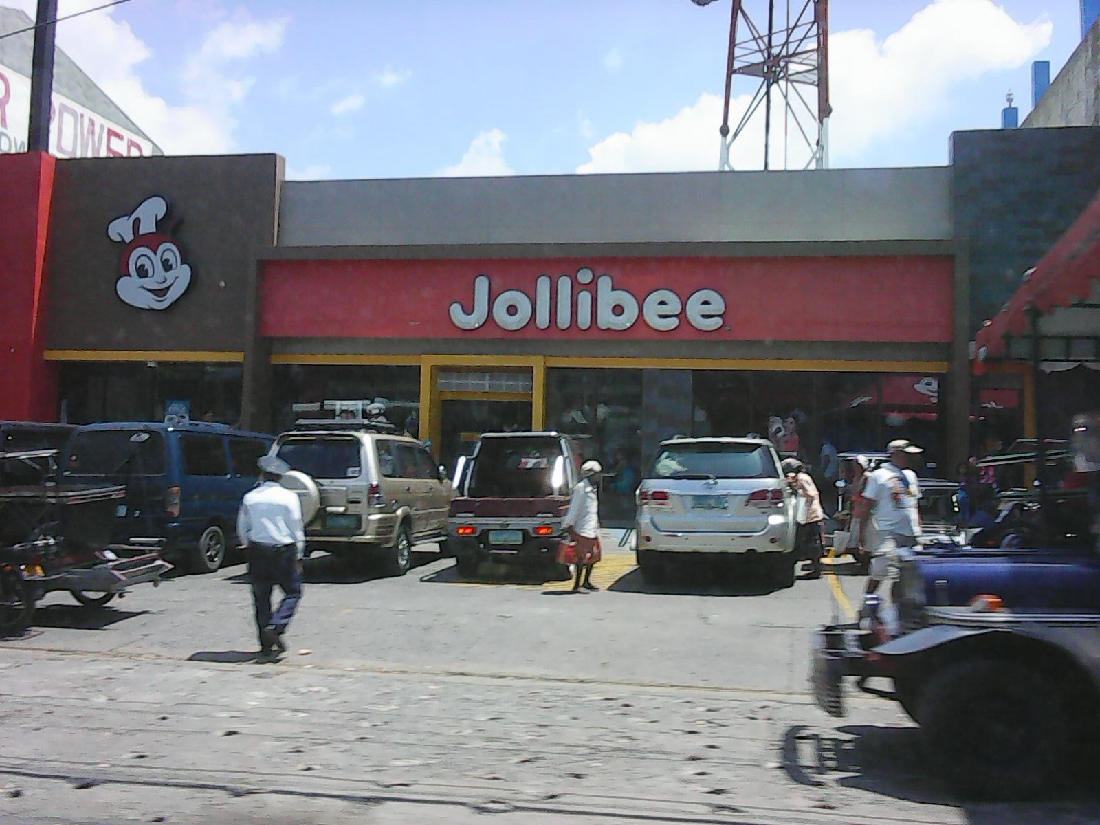 A facade of a Jollibee restaurant in Sariaya.